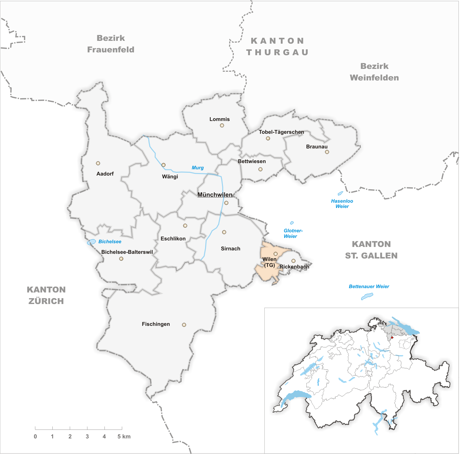 Municipality Wilen